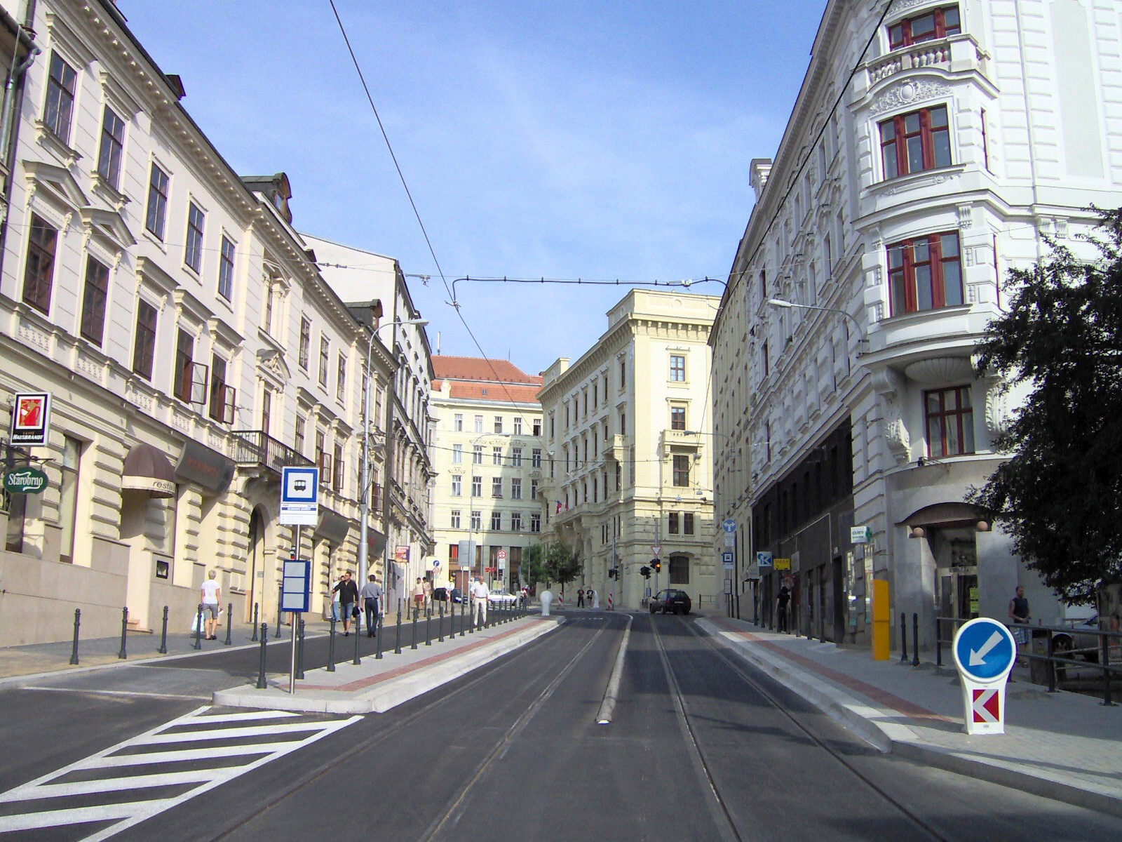 Tram track in Pekařská street, Brno, Czech Republic